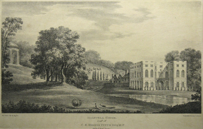 Halswell House by Augustino Aglio. Painted about 1830